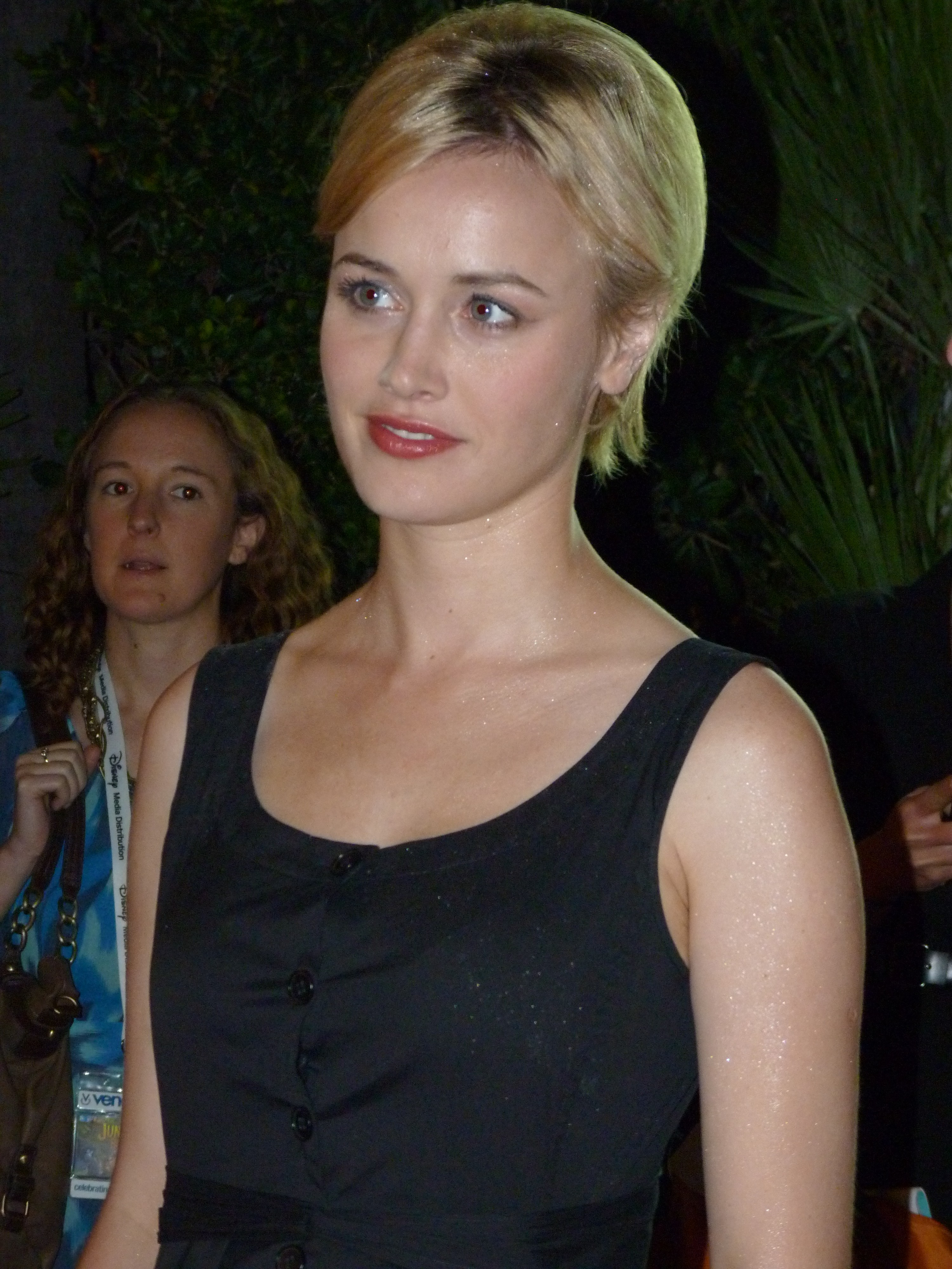 Dominique McElligott at the 2011 MIPCOM, in Cannes.